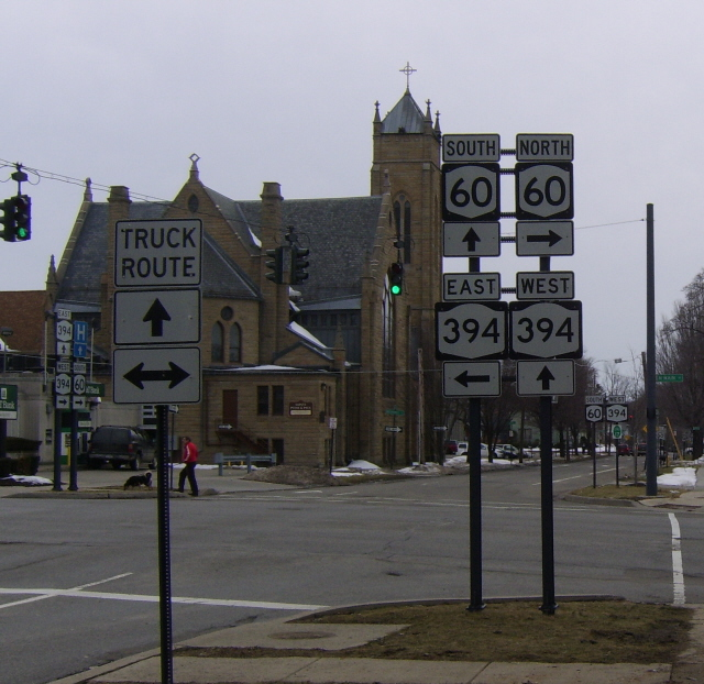 Sign posts showing the intersection of New York State Routes 394 and 60 (Sixth Street and North Main Street)